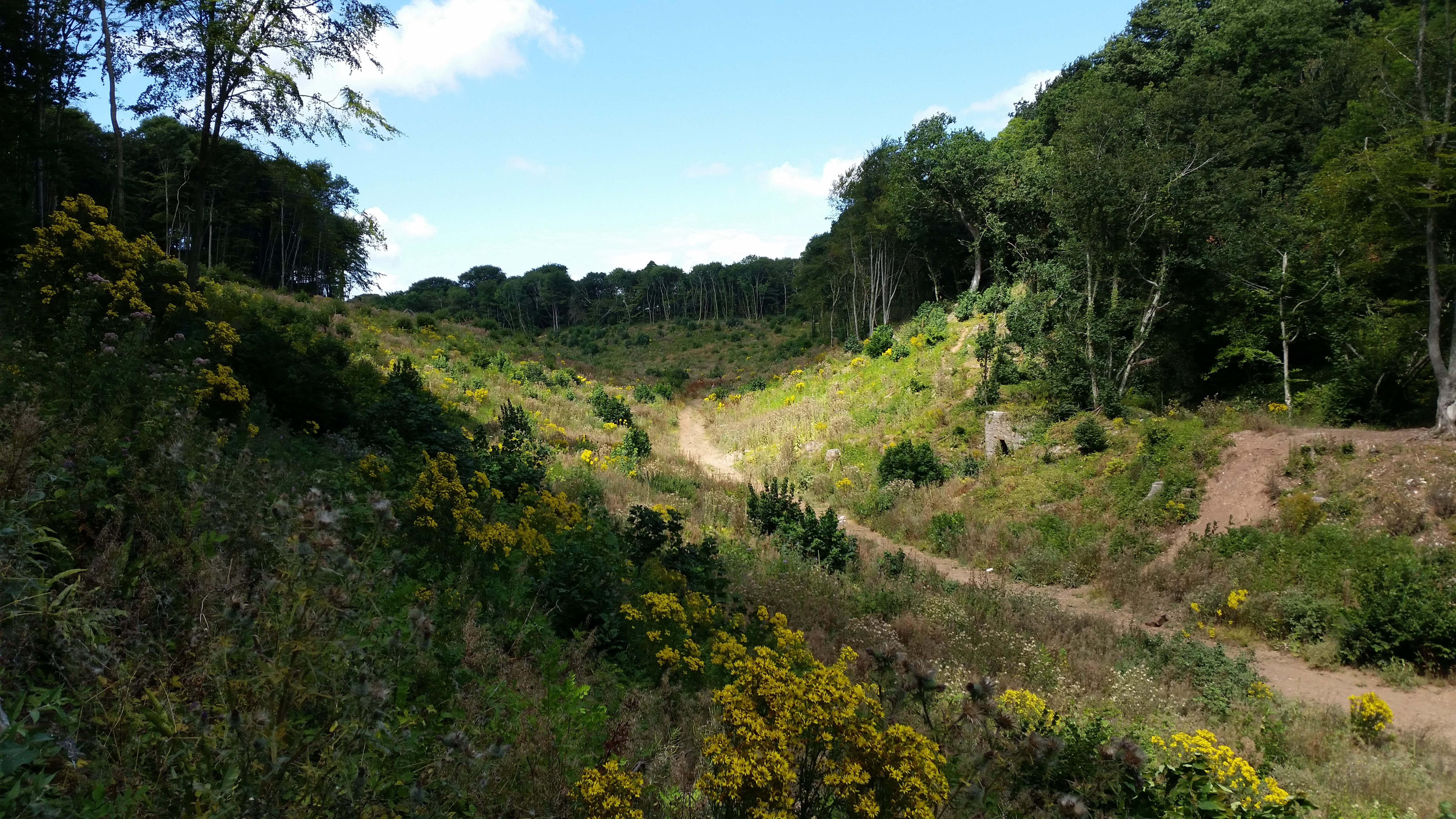 A view of Churston Woods, showing the cleared section, looking up away from Churston Cove.